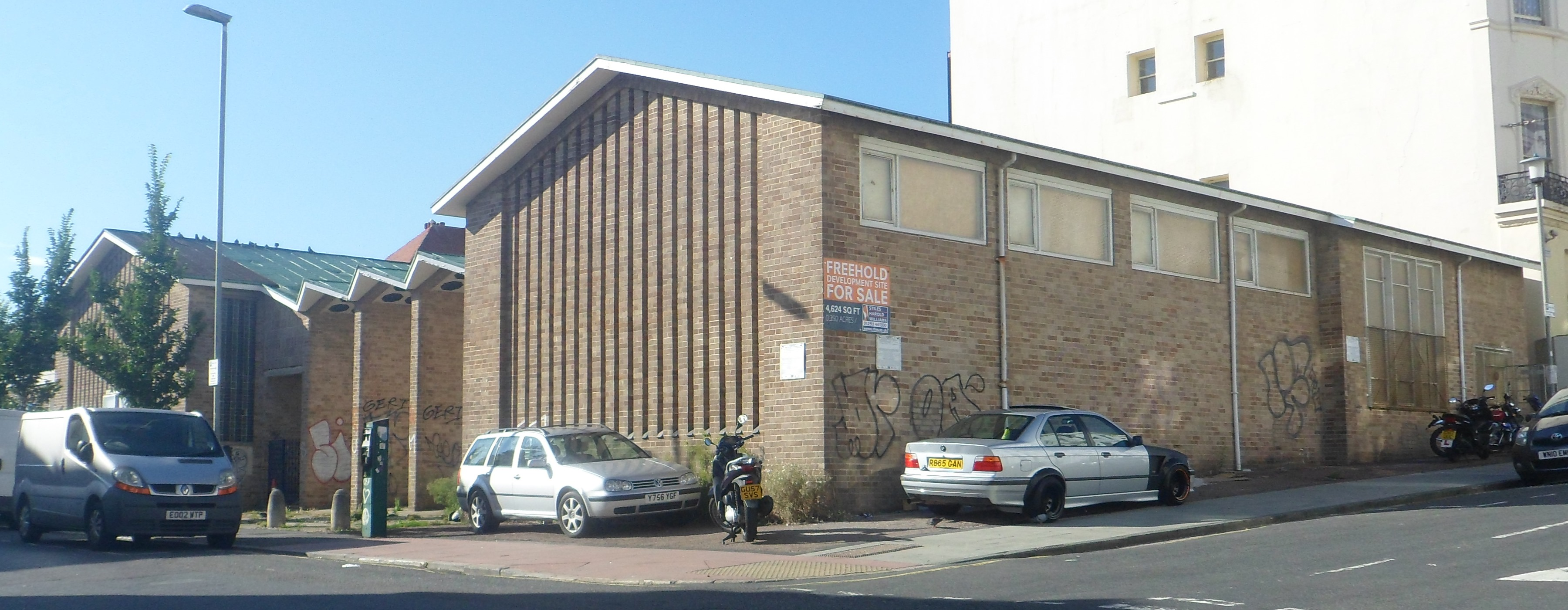 Montpelier Place Baptist Church, Montpelier Place, Hove, City of Brighton and Hove, England.